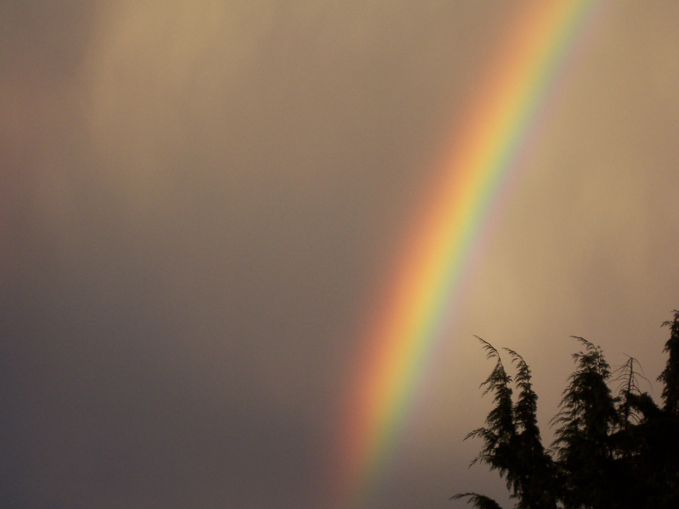 Rainbow up close